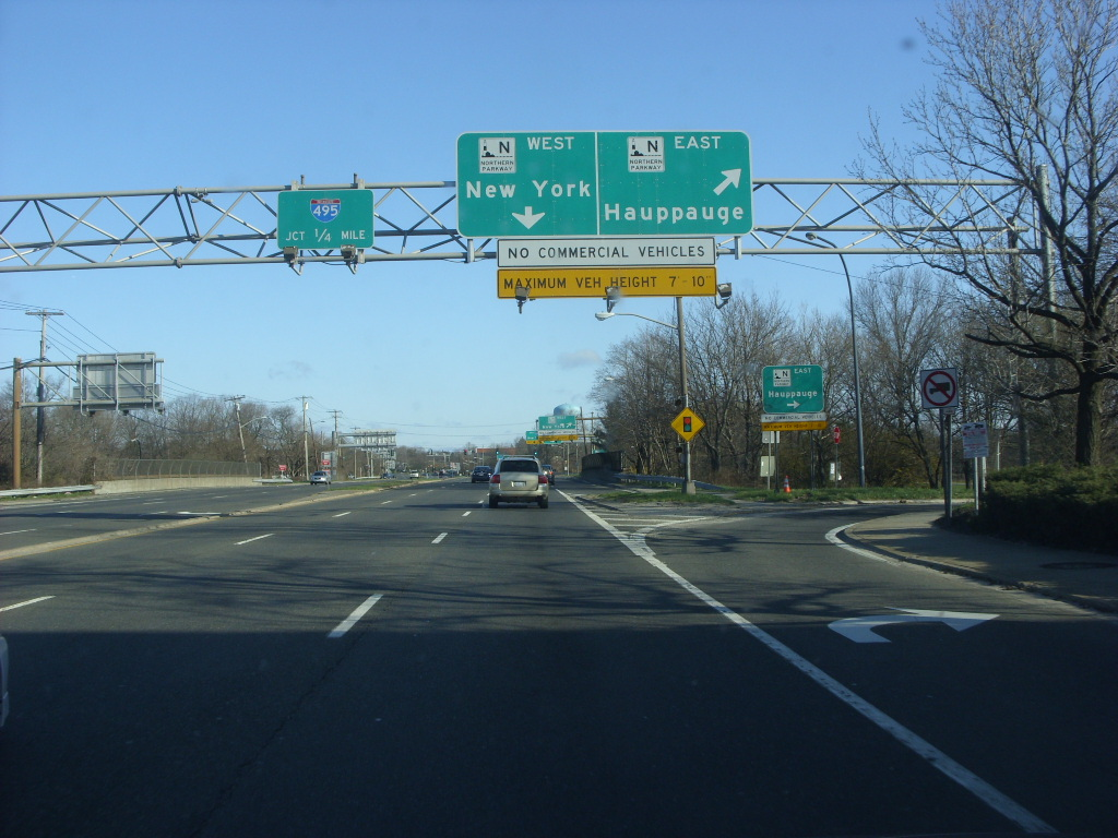 New York State Route 107 northbound at the interchange with Northern State Parkway in East Birchwood.